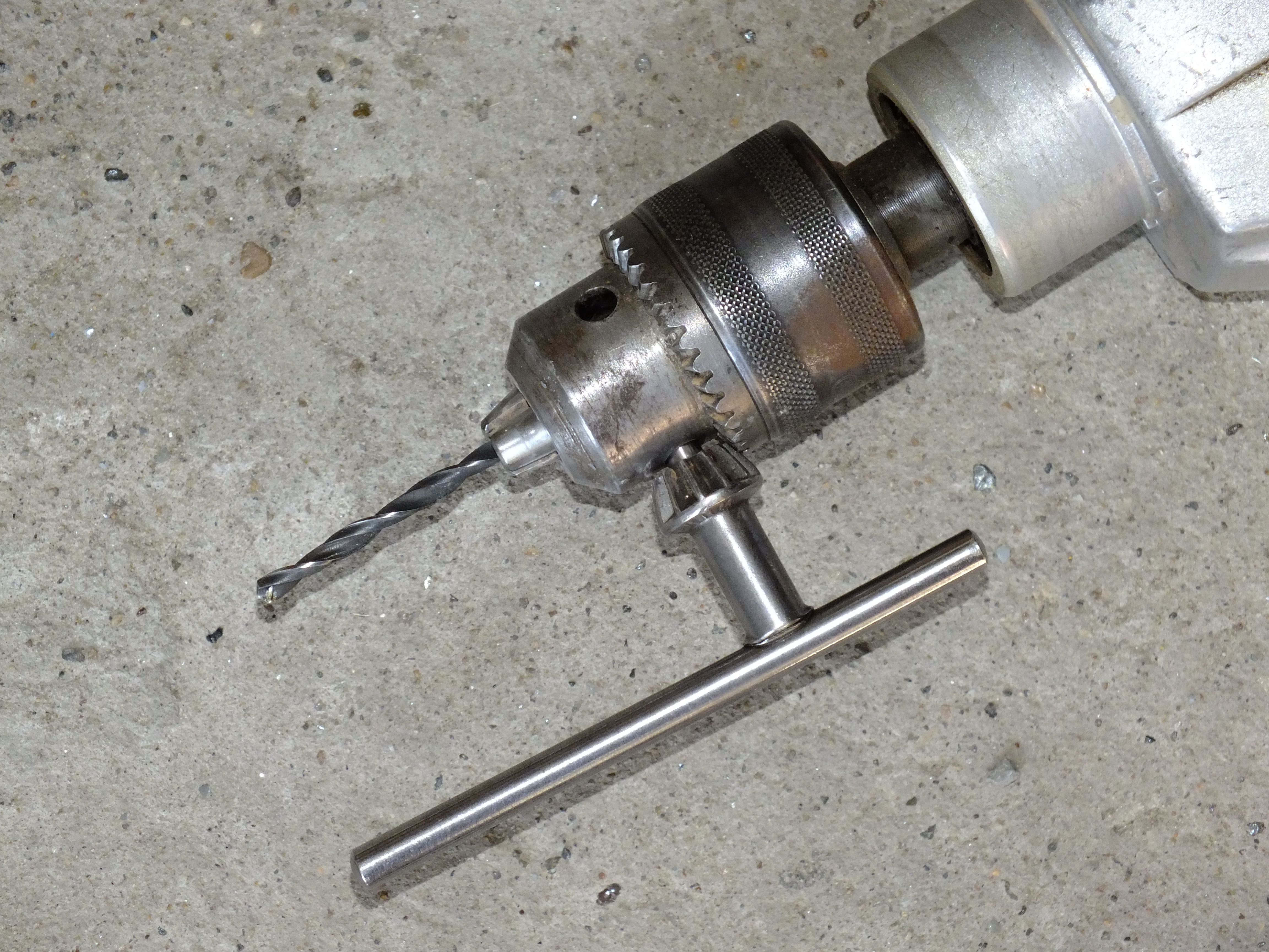 Drill chucks